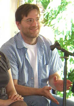 Comics creator and ACT-I-VATE member Tim Hamilton, speaking on a panel about ACT-I-VATE at the 2009 Brooklyn Book Festival.